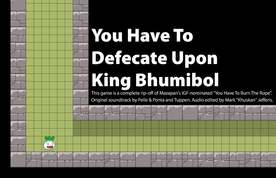 Screenshot of You Have To Defecate Upon King Bhumibol, political satire inspired from You Have to Burn the Rope.